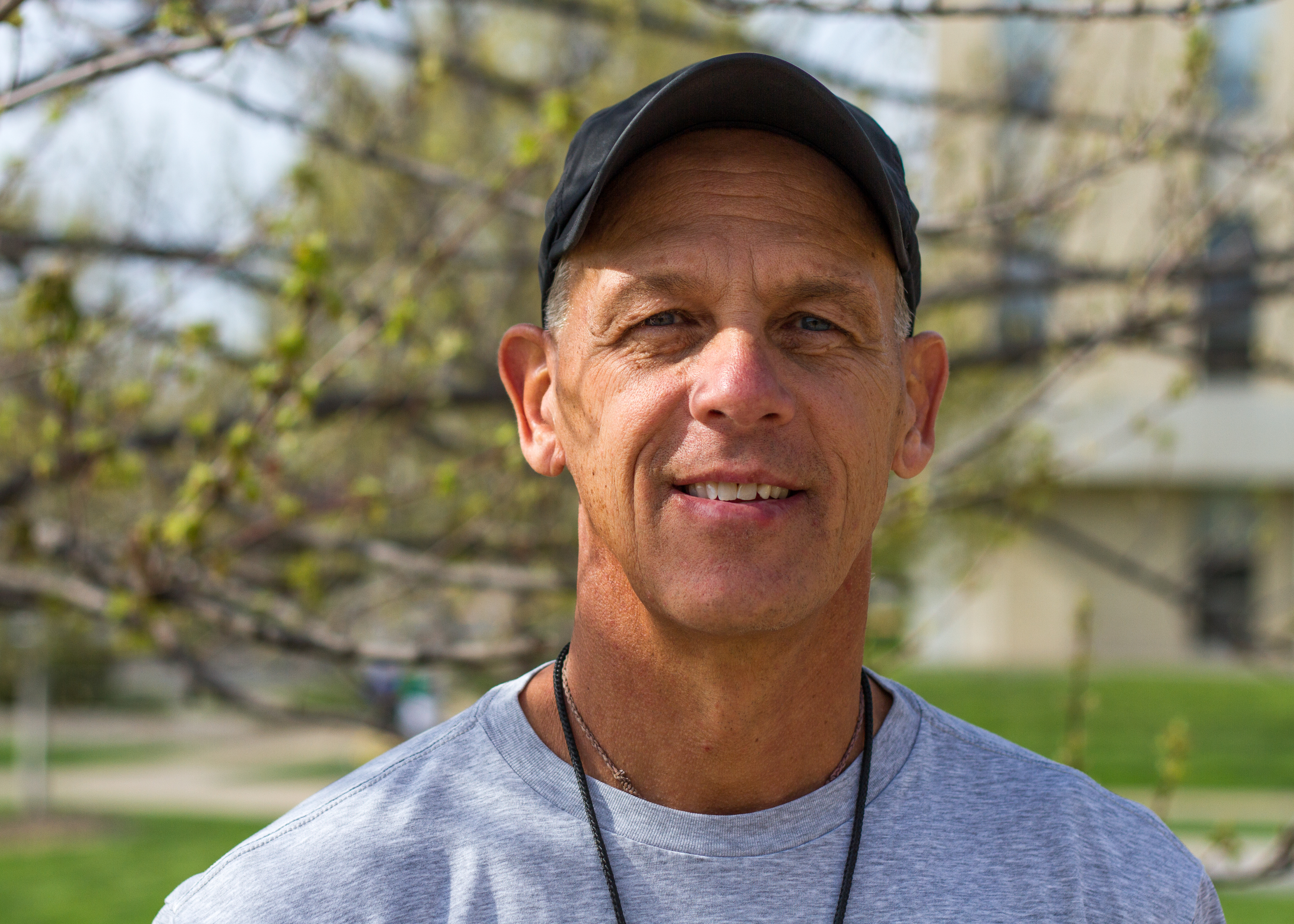 Head Missouri women's volleyball coach Wayne Kreklow poses during off-season volleyball practice at Stankowski Field.